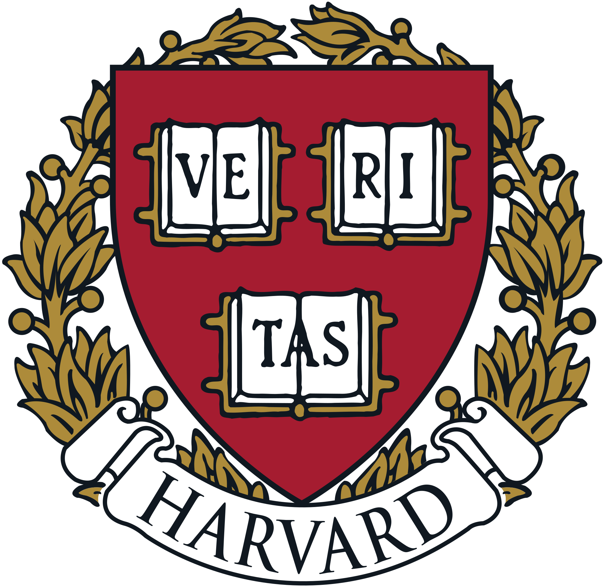 This is a logo for Harvard University